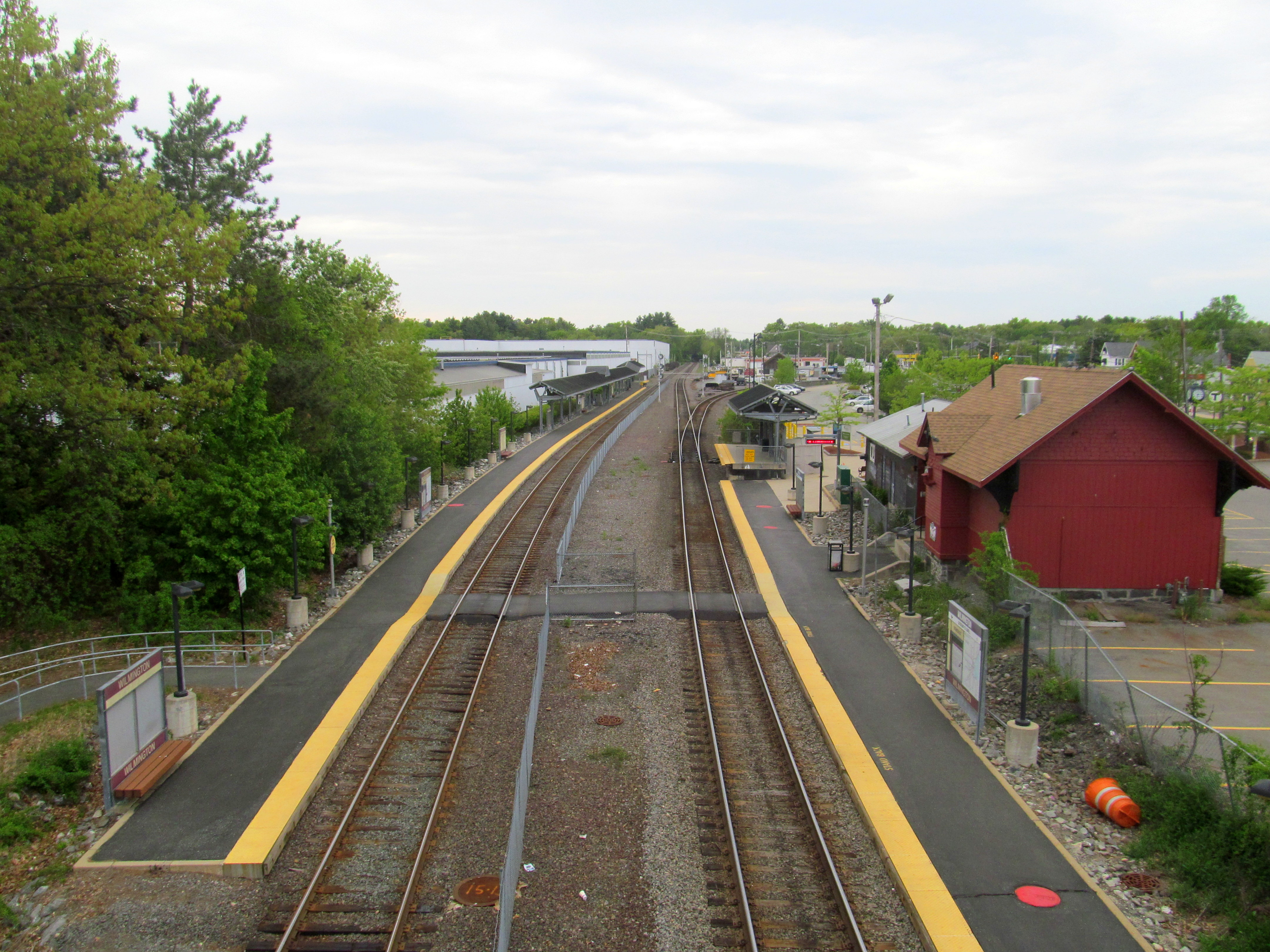 The MBTA platforms and former Wilmington station building in May 2016